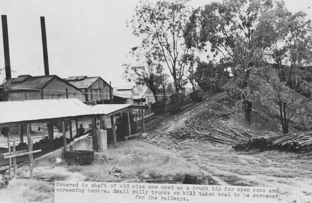 Mine buildings at Blair Athol, 1950 The old coal mining site shows small coal trucks on the rail line going up the hill. Several mine buildings are visible. Coal was originally discovered on the site in 1864, but it wasn't until the 1980s that the first commercial shipment of coal was despatched. Today Blair Athol Mine is managed by Rio Tinto Mines.